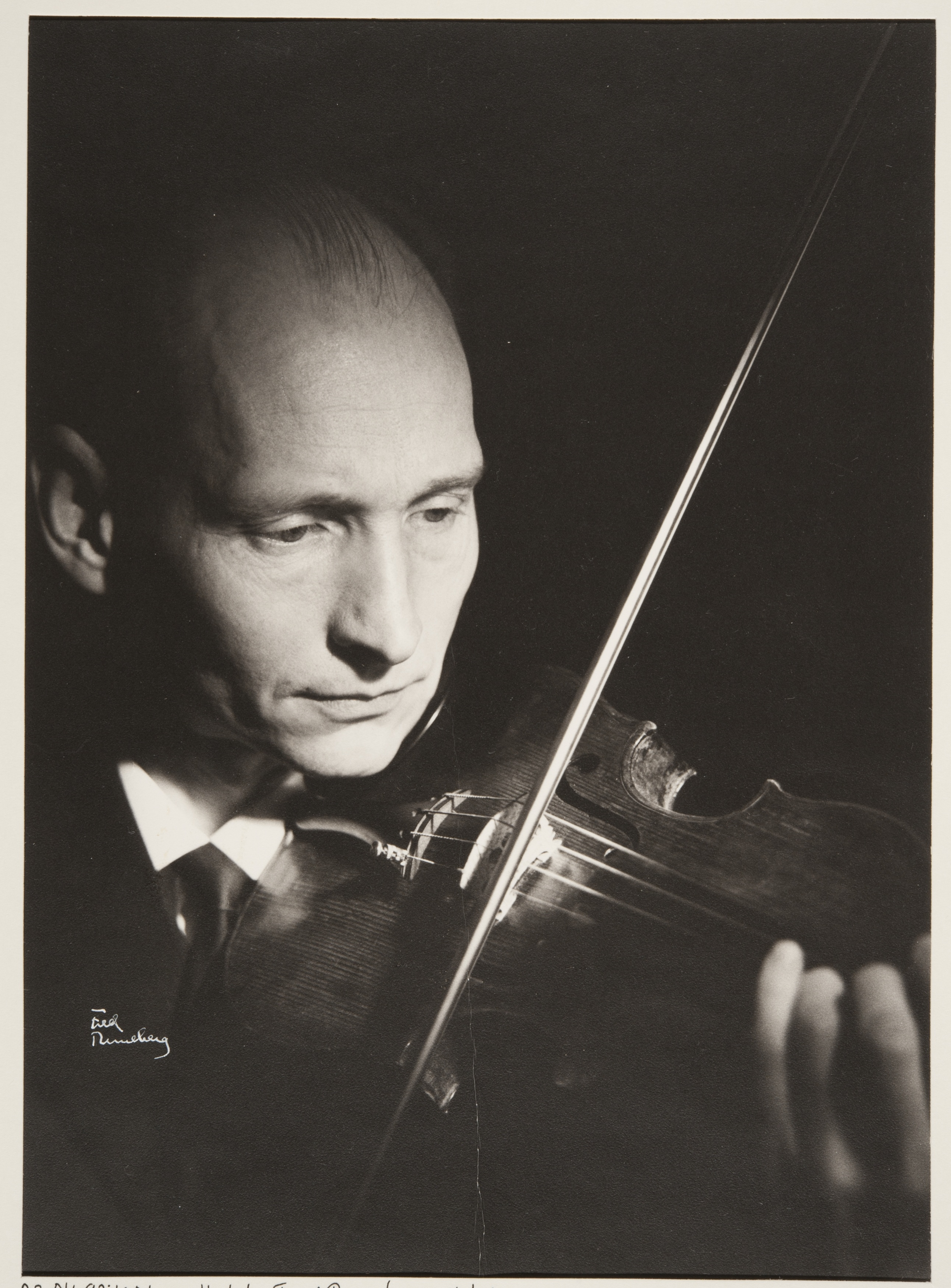 Photograph of the Finnish violinist Tuomas Haapanen (1924–).